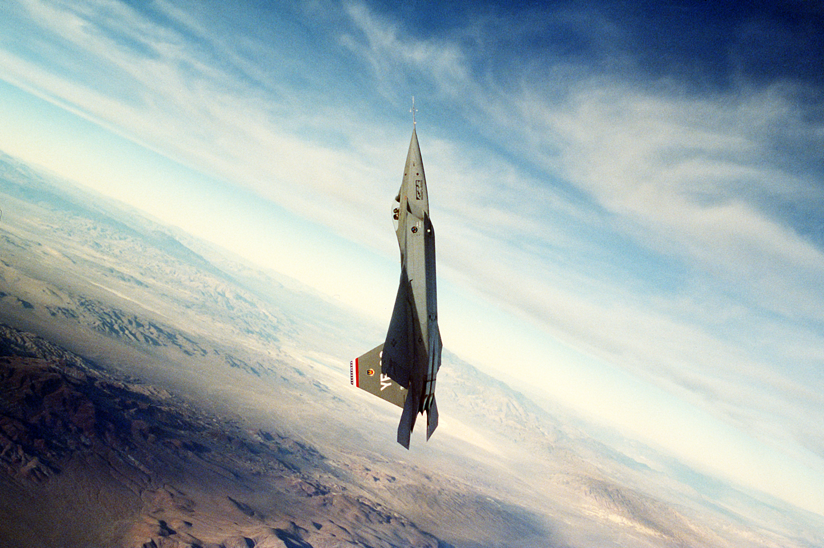 An air-to-air right side view of an YF-22 advanced tactical fighter aircraft during a test flight. The aircraft represents the latest developments in stealth or "low observable" technology.